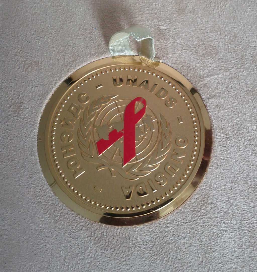 UNAIDS